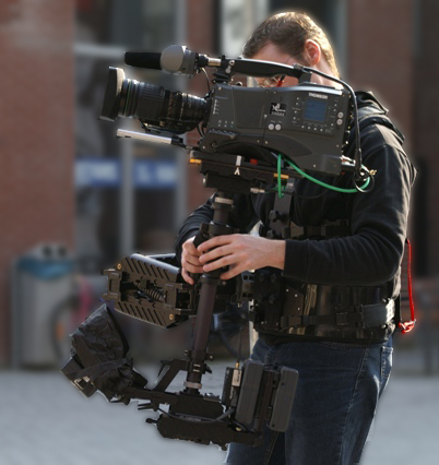 Steadicam operator